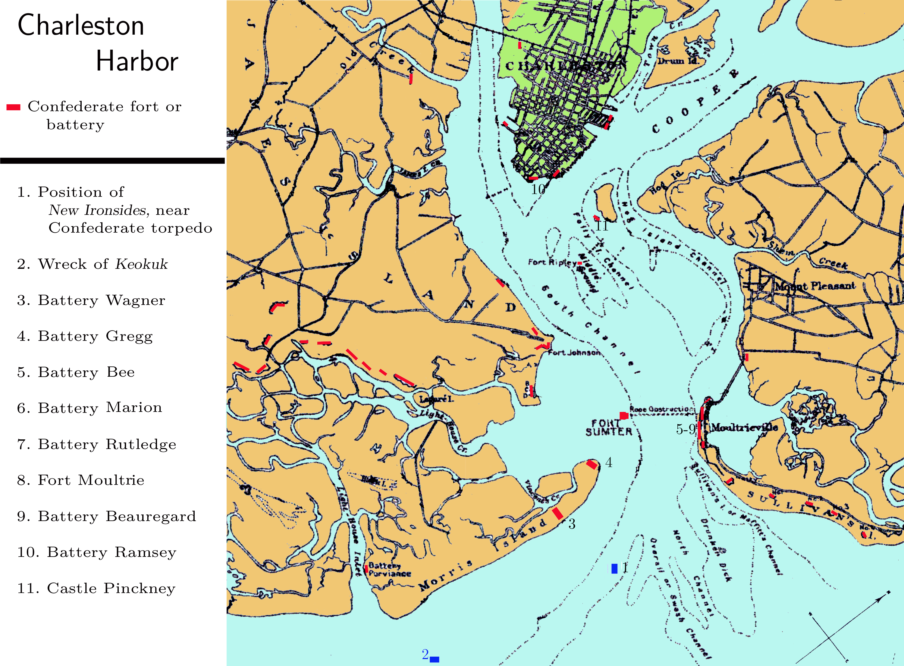 This chart is modified from one found in the Official records of the Union and Confederate Navies in the War of the Rebellion, ser. I, v. 14, p. 2A. Insofar as any of my modifications may be subject to copyright law, I release them under the same terms as the original. Pkkphysicist (talk) 13:51, 20 July 2009 (UTC)